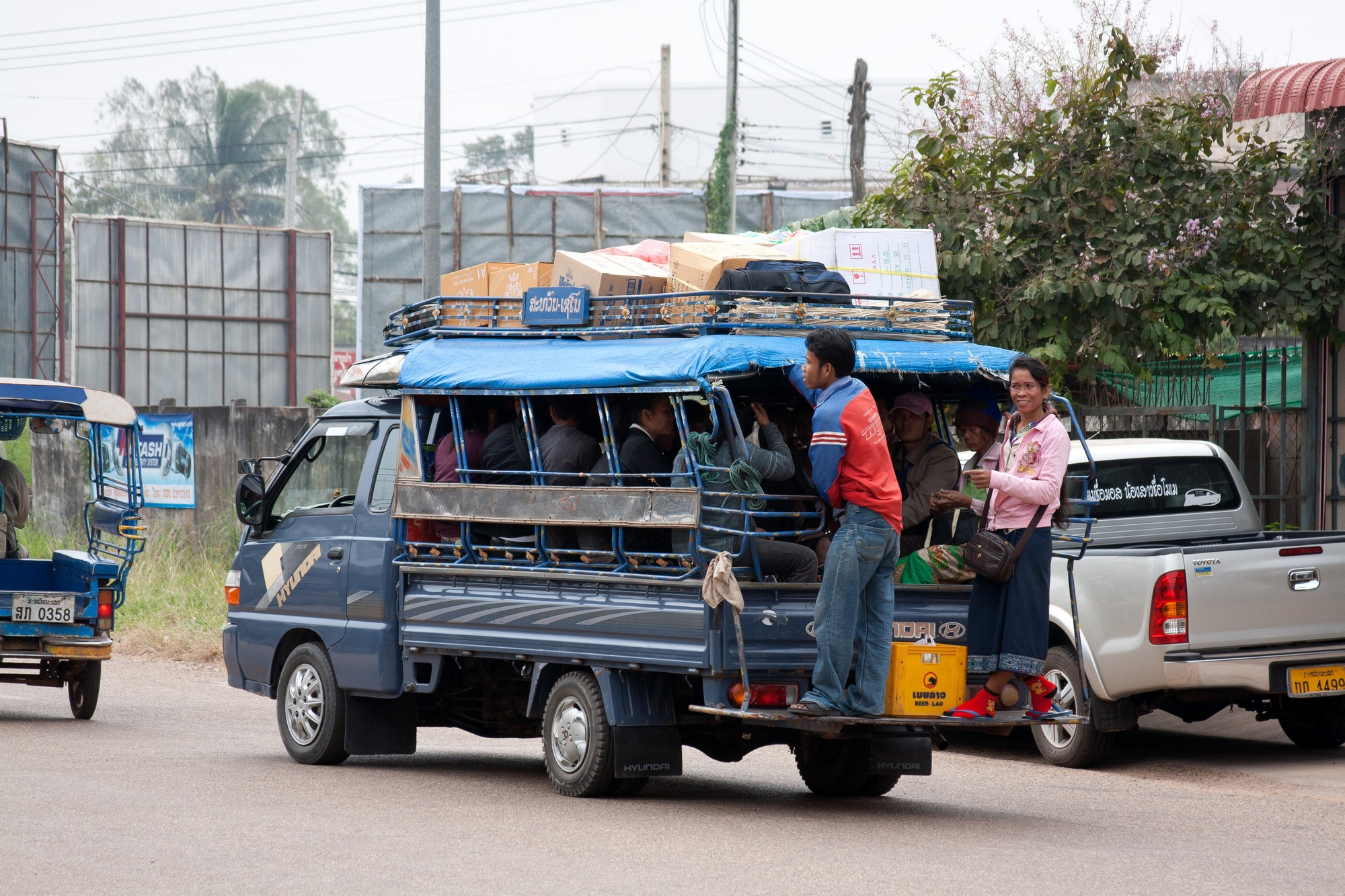 Songthaew in Savannakhet, Laos (Hyundai Porter)